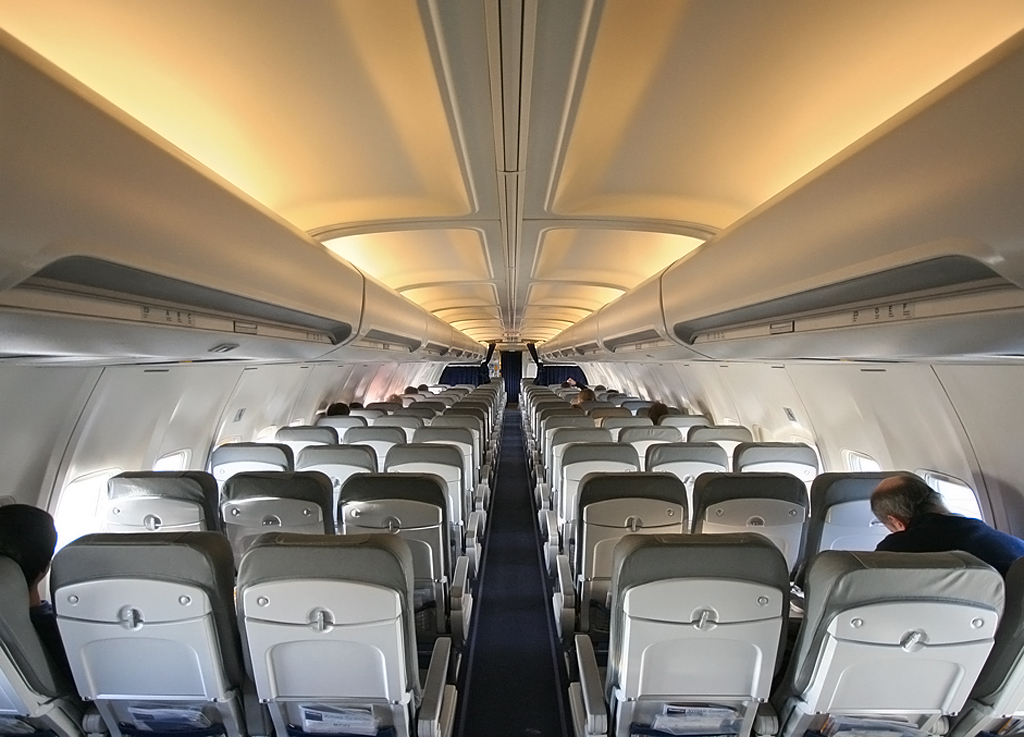 New Lufthansa cabin look. Note the new seat design, coat hooks and a new blue moveable divider curtain :) I like it, seats are very comfortable although they look thin (from the side). My first experience with Lufthansa was great ;) Nice and friendly cabin crew!